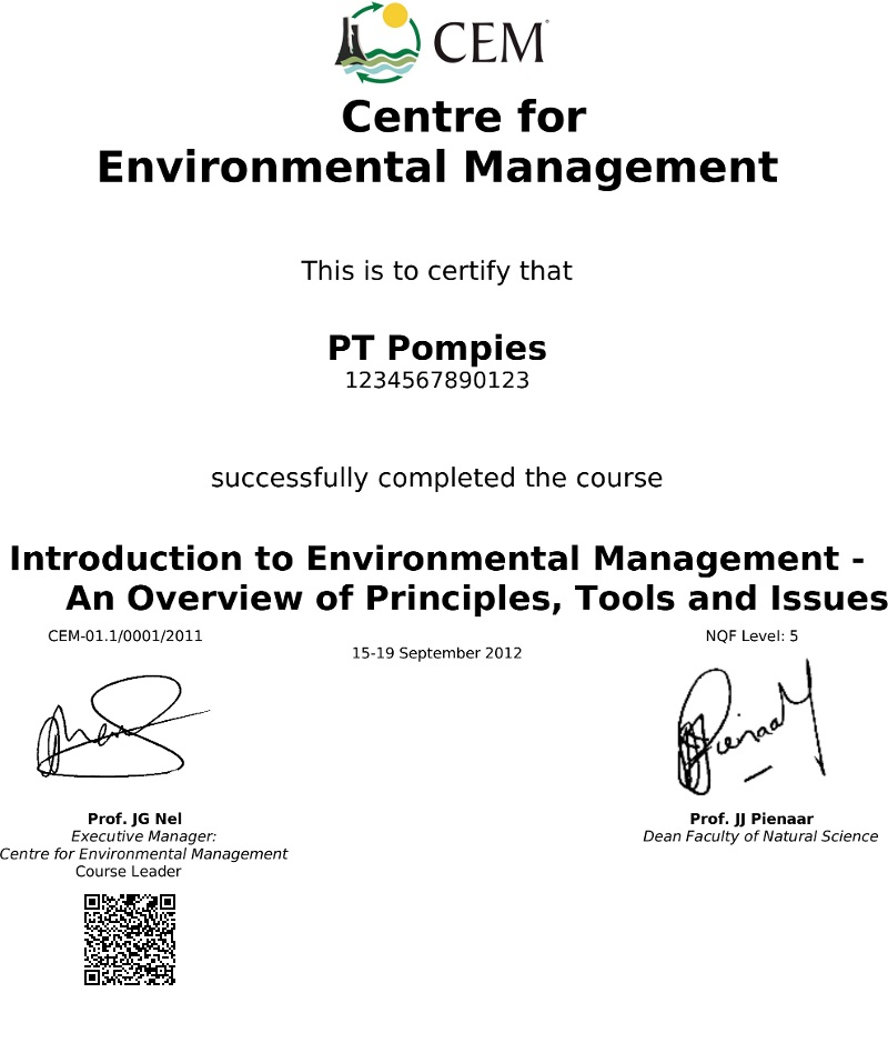 SANS1368 Example 2 141113